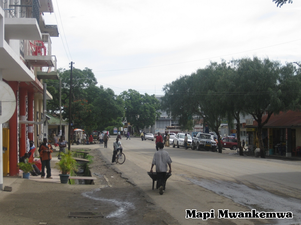 Mbeya street, Tanzania